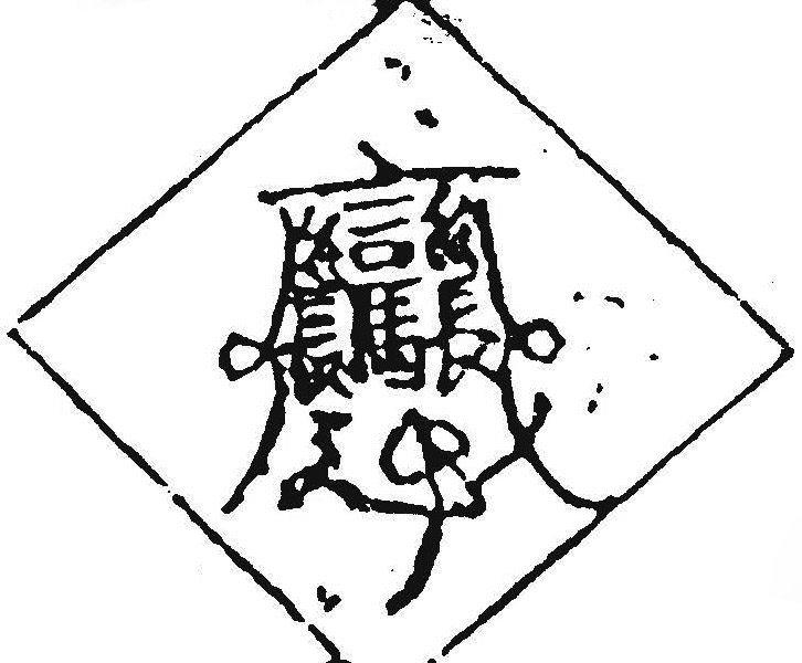 One Part of the scene of HongBang KaiXiangTang in Ming dynasty.